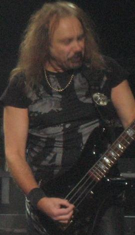 Bassplayer from Judas Priest, Ian Hill Note: this is a crop version of the original